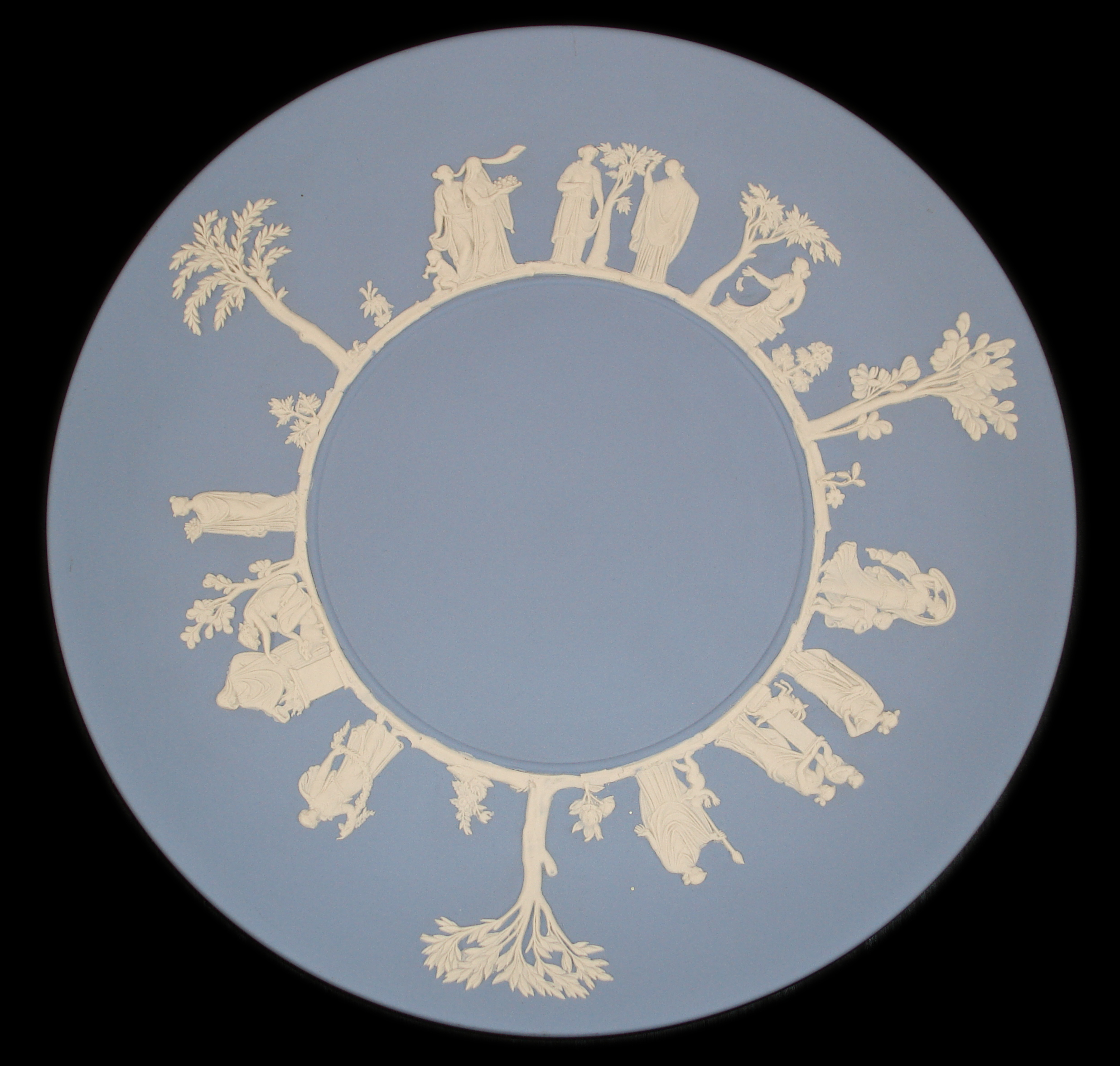 Wedgwood plate